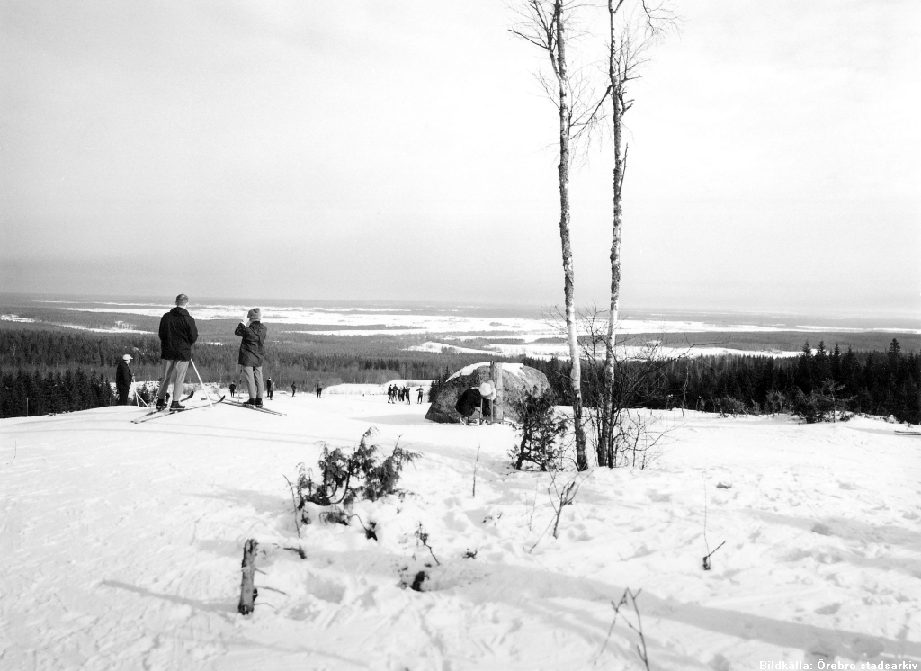 The skiing resort Ånnaboda outside Örebro, Sweden